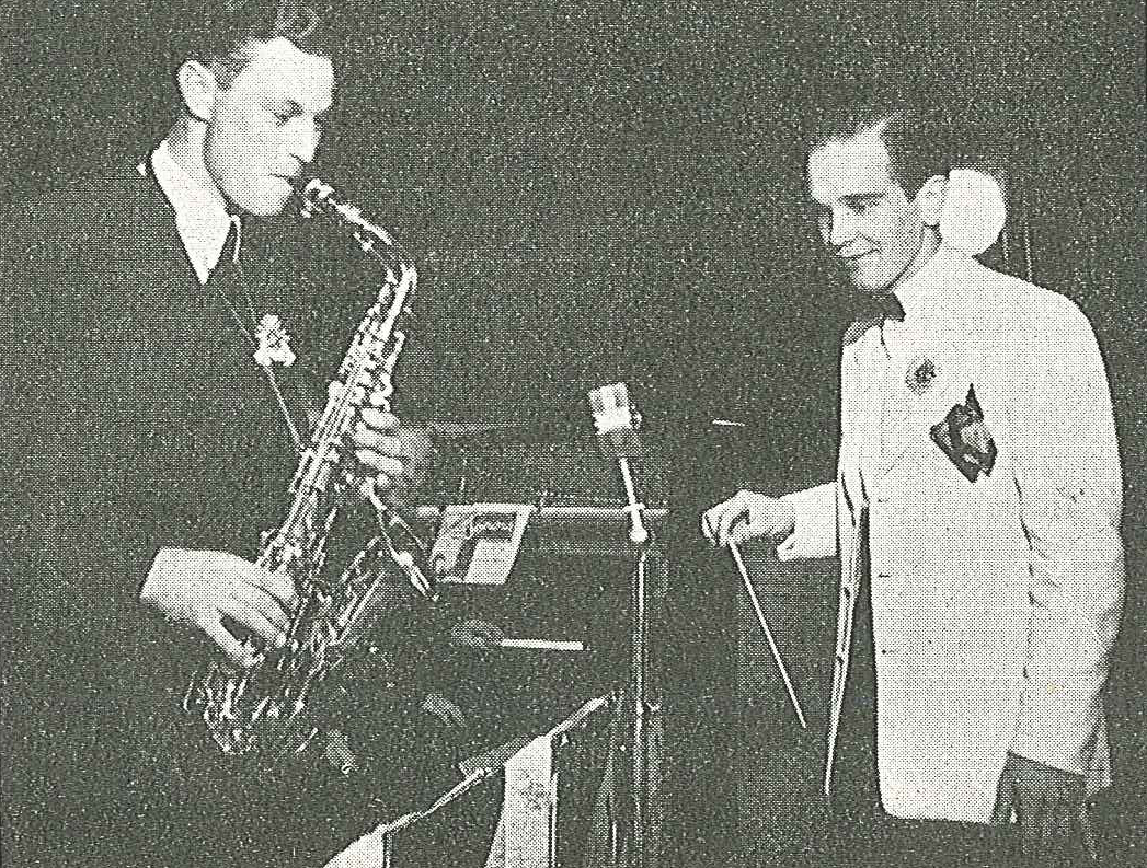 Charlie Norman (right) as the leader of a band in his home town Ludvika in 1942. To the left the band's alto saxophonist Filip Jansson.